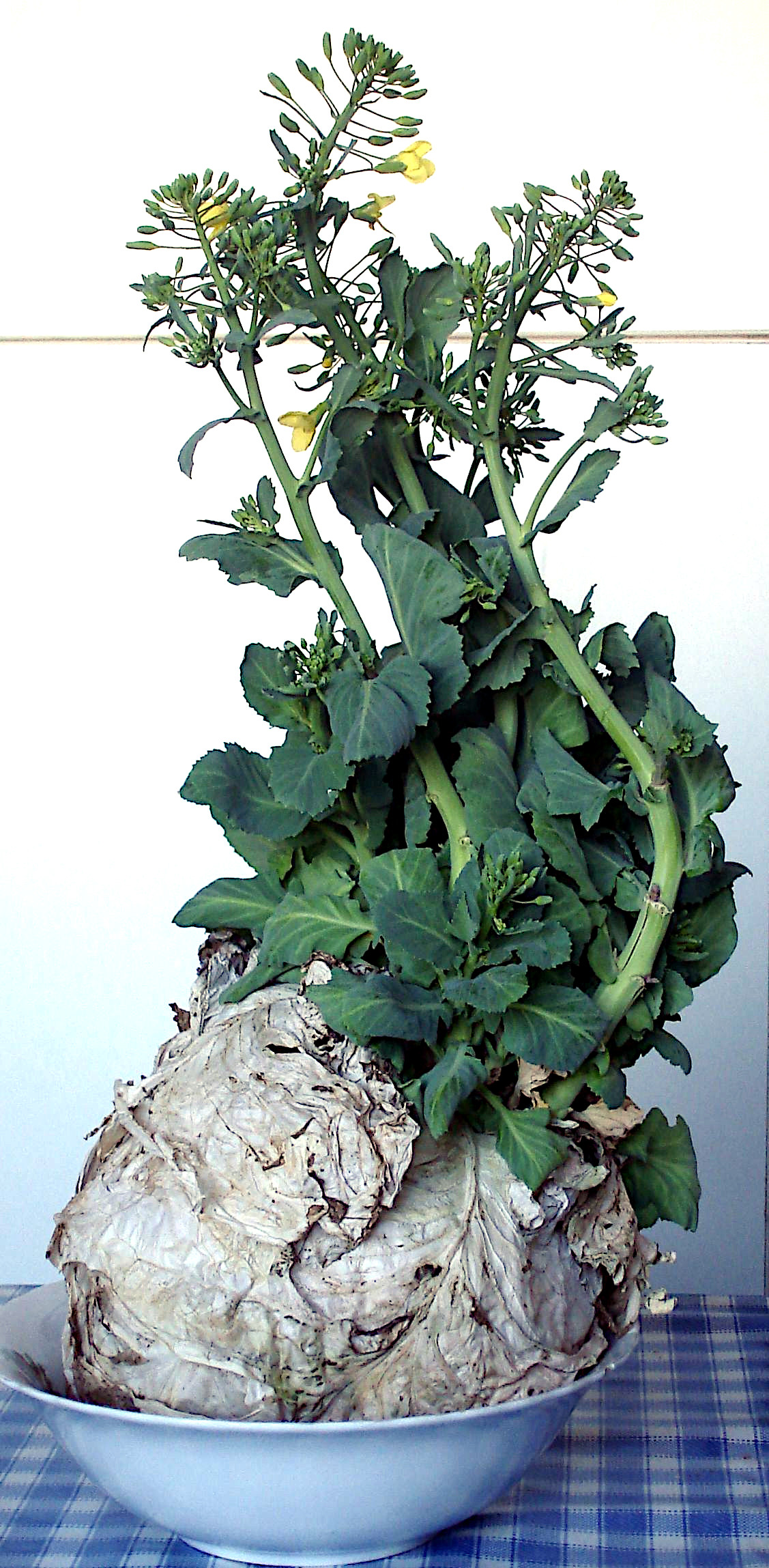 Cabbage in blossom in January 2008 after being held on a closed balcony since the autumn 2007